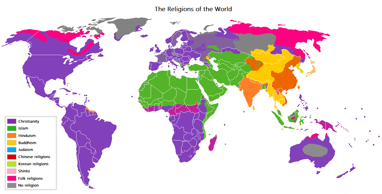 A map of the world, showing the major religions distributed in the world as of today. A different type of map which views only the religion as a whole excluding denominations or sects of the religions, and is colored by how the religions are distributed not by main religion of country etc.